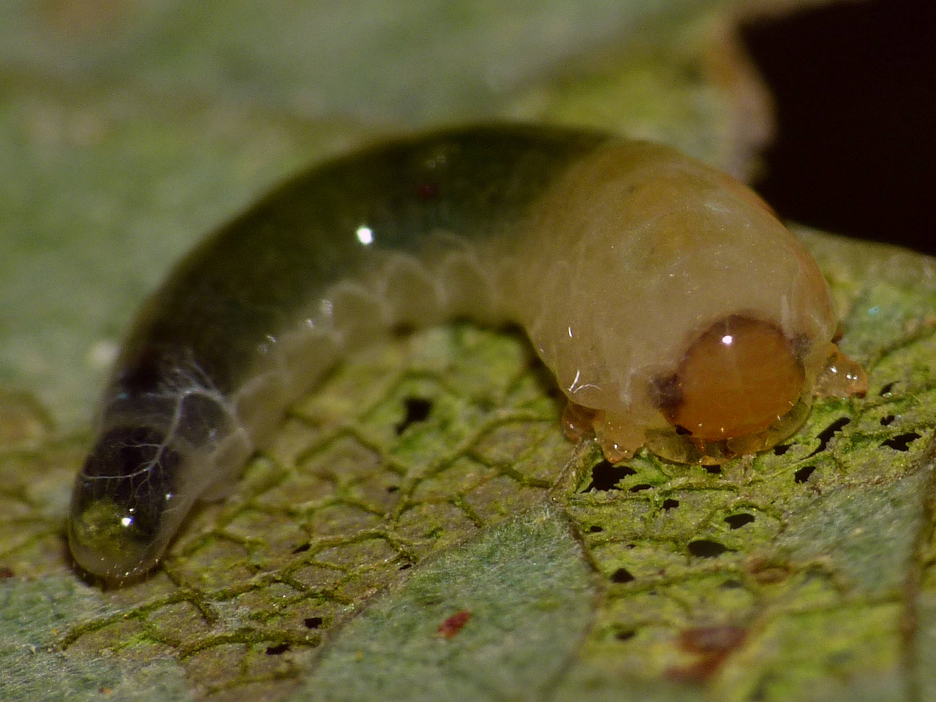 Larva of a sawfly Caliroa, very probably an Oak Slug Sawfly C. annulipes munching on a leaf. Larva found at parking near Dwingelderveld, Netherlands, 2014-09-07